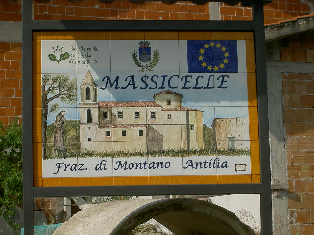 A ceramic plaque in the Italian village of Massicelle, in Campania, representing the village church of Santa Maria Lauretana